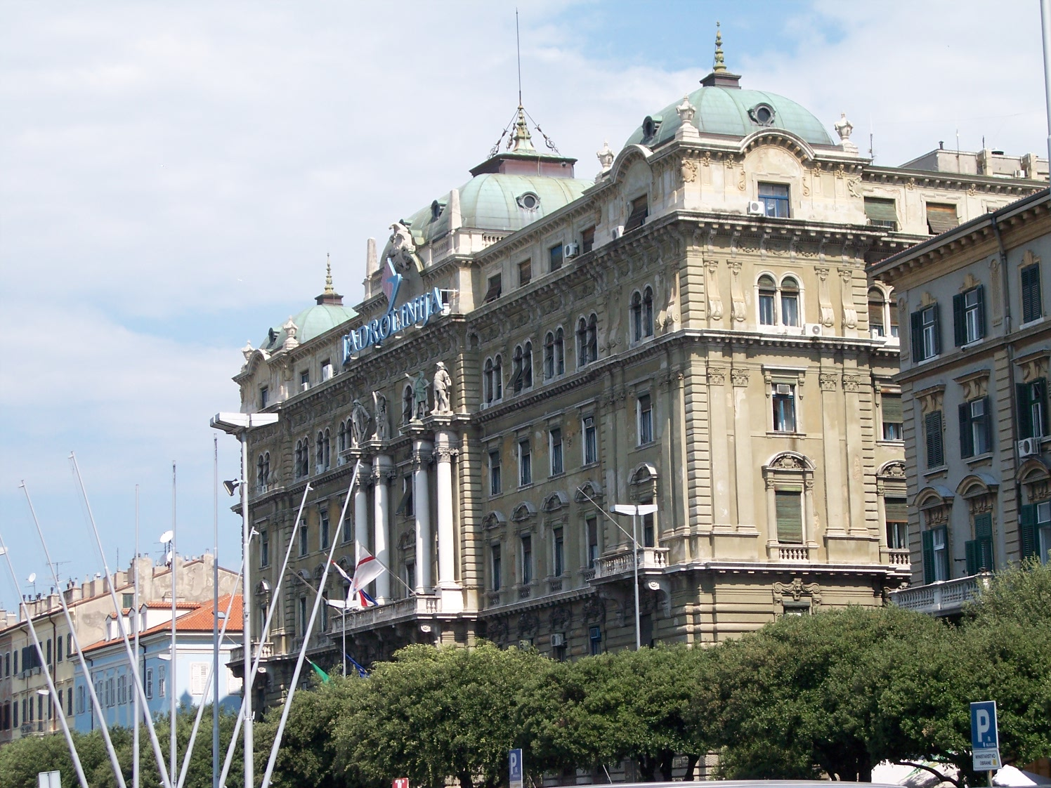 Jadrolinija headquarters building in Rijeka (Croatia), Italian and Hungarian name: Fiume